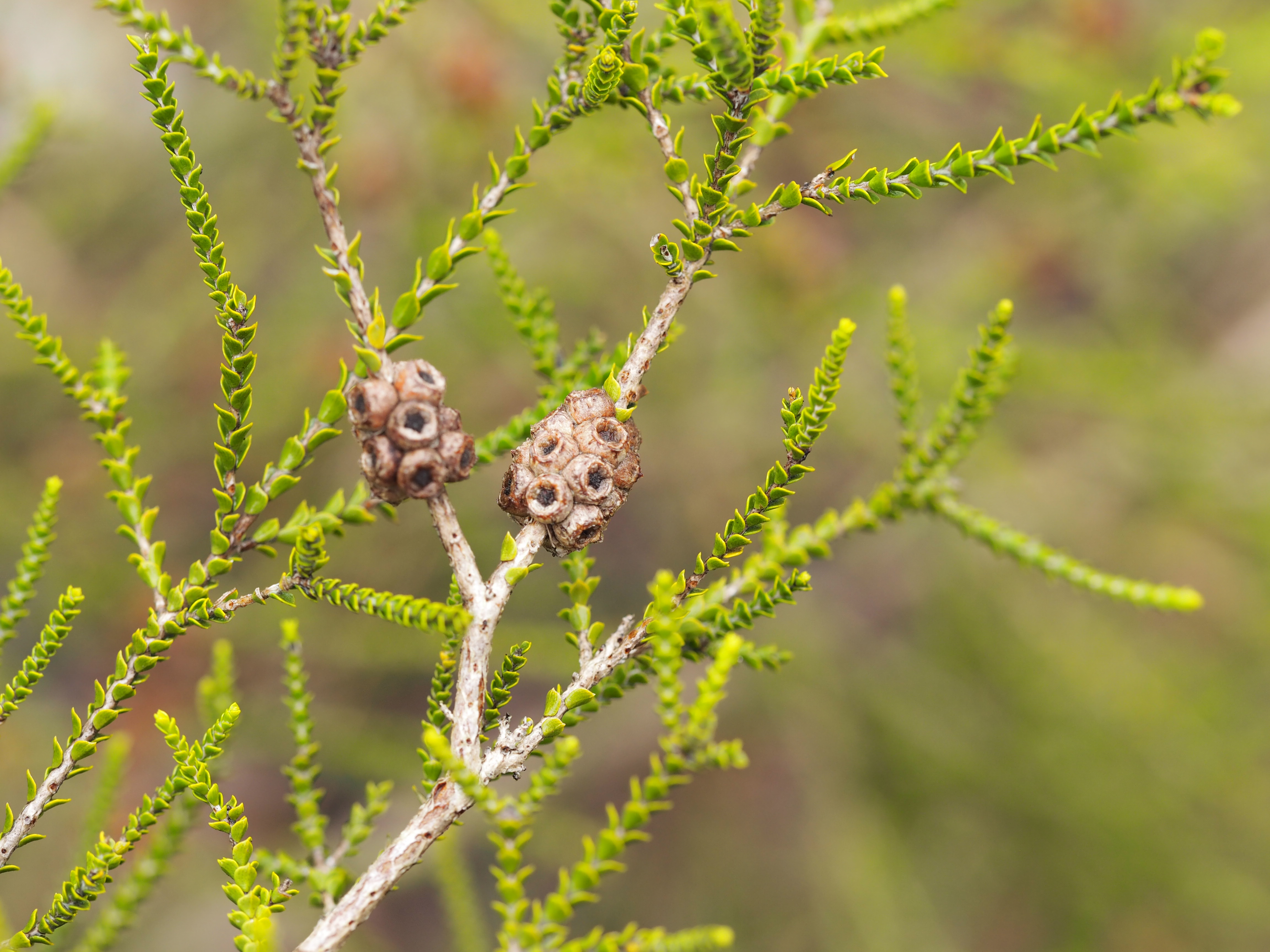 Melaleuca uxorum (foliage) on Mount Emerald, Queensland